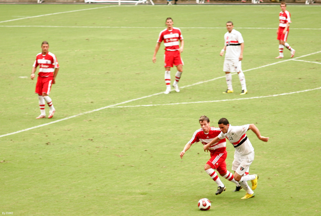 friendly match between Bayern Munich and São Paulo in Hong Kong. The game ended 2 to 1.